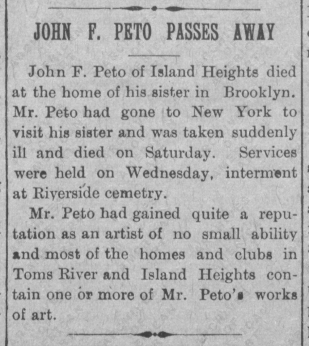 John Frederick Peto Obituary, 1907